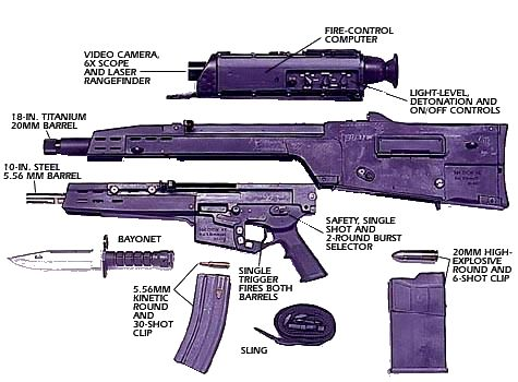 XM29 OICW disassembled